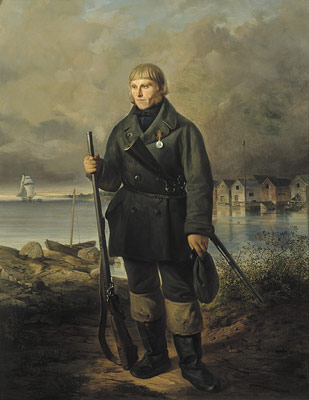 A Picture Of Matts kankkonen